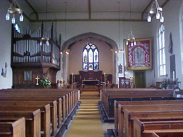 Inside St Paul's parish church, Stockingford, Nuneaton, Warwickshire in 2002, before it was reordered in 2008